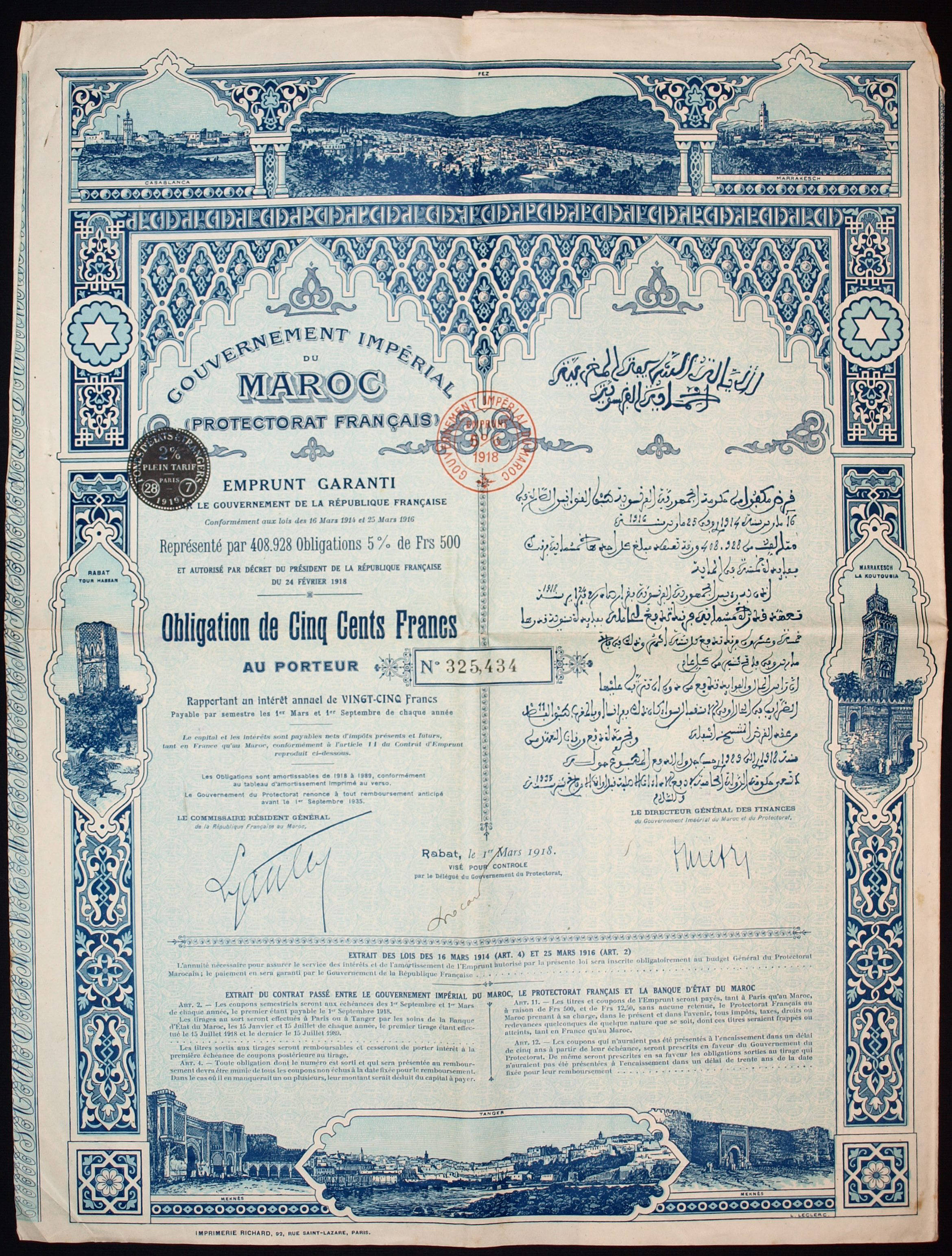 Bond from Maroc, issued 1st March 1918